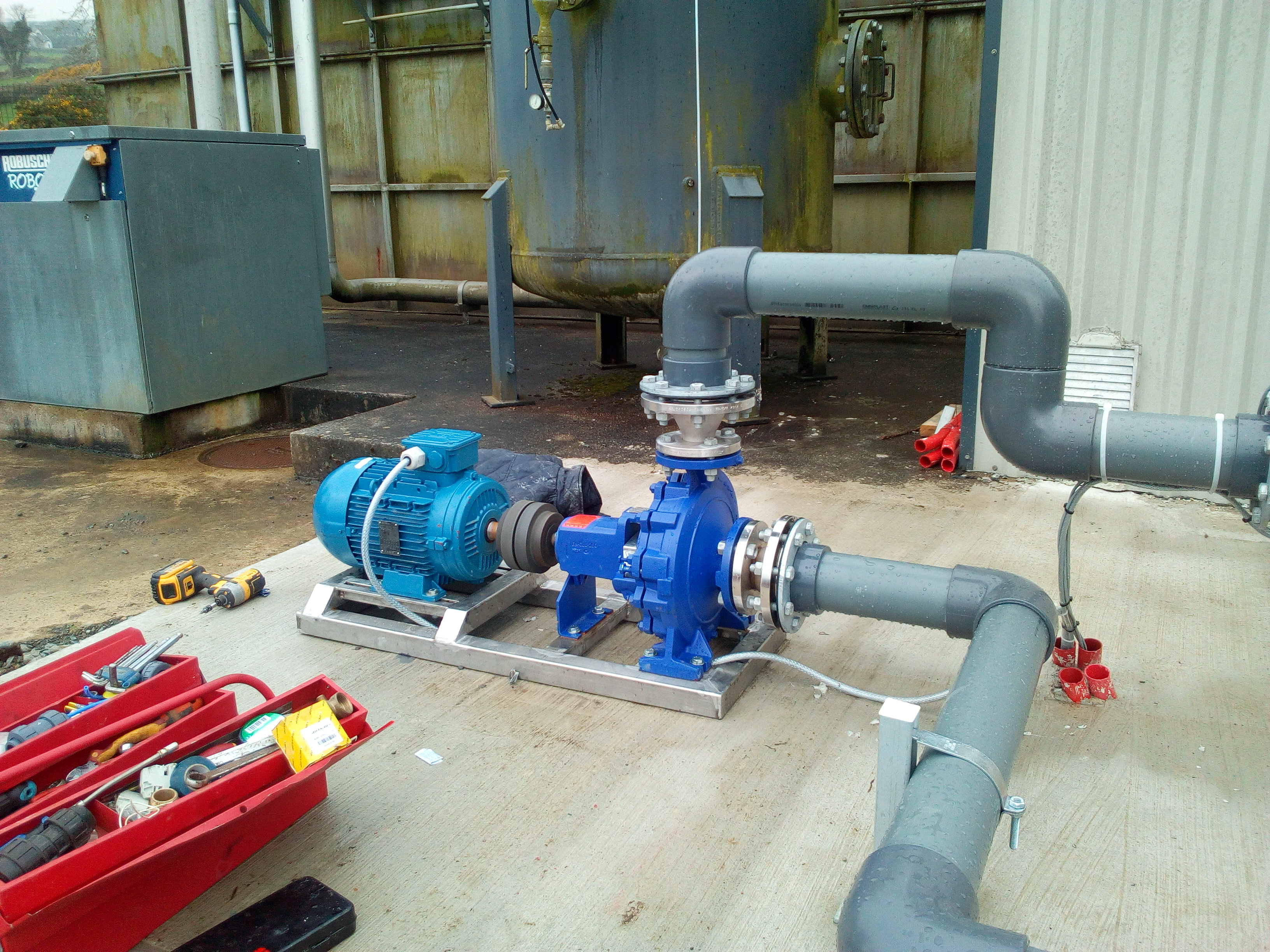 View of a PAT installed to recover energy at an Irish rural water network in 2019